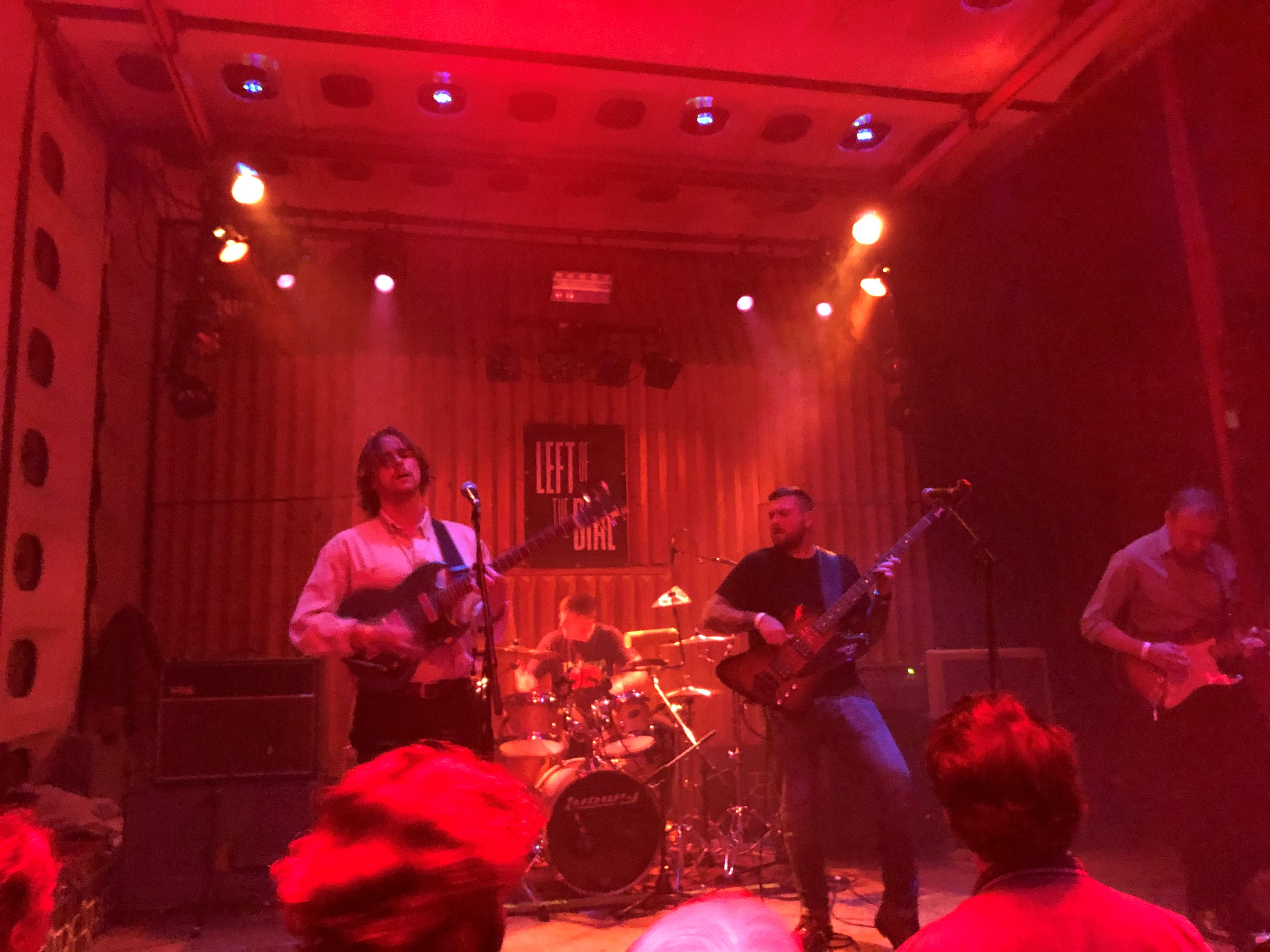 Live performance of Imperial Wax at Left of the Dial festival Rotterdam.